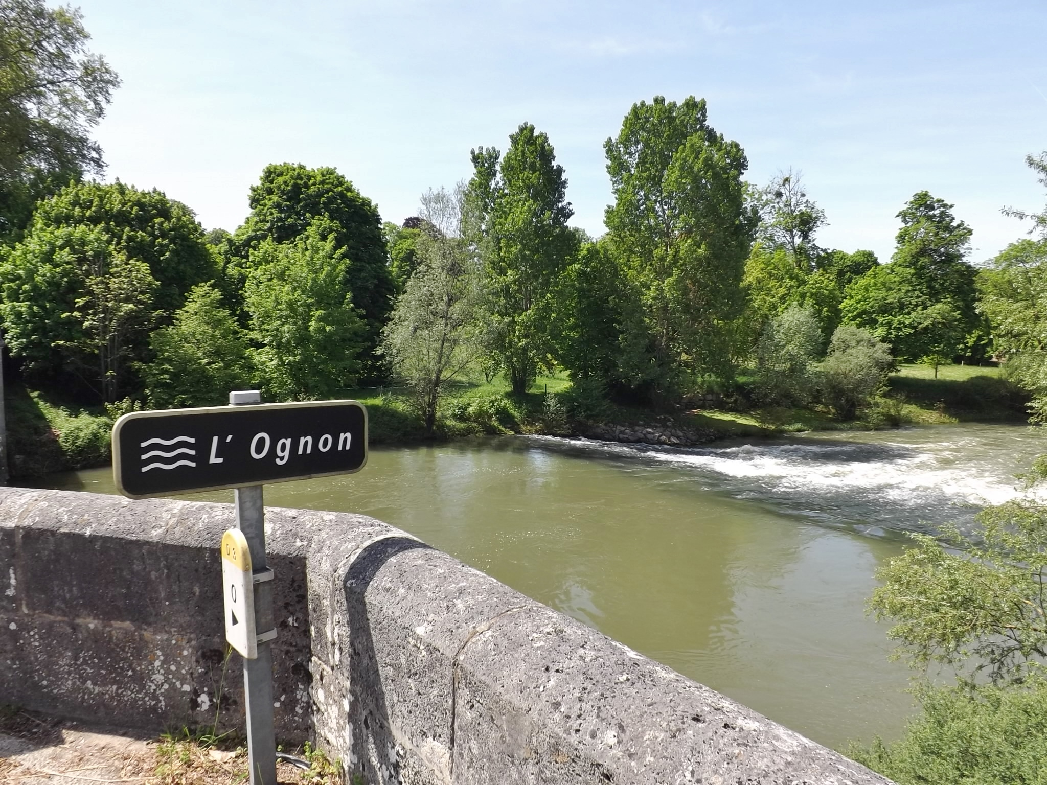 Sight of the Ognon river, here crossing the bridge between Cussey-sur-l'Ognon (in Doubs, forward) and Étuz (in Haute-Saône, on this side), near Besançon, France.